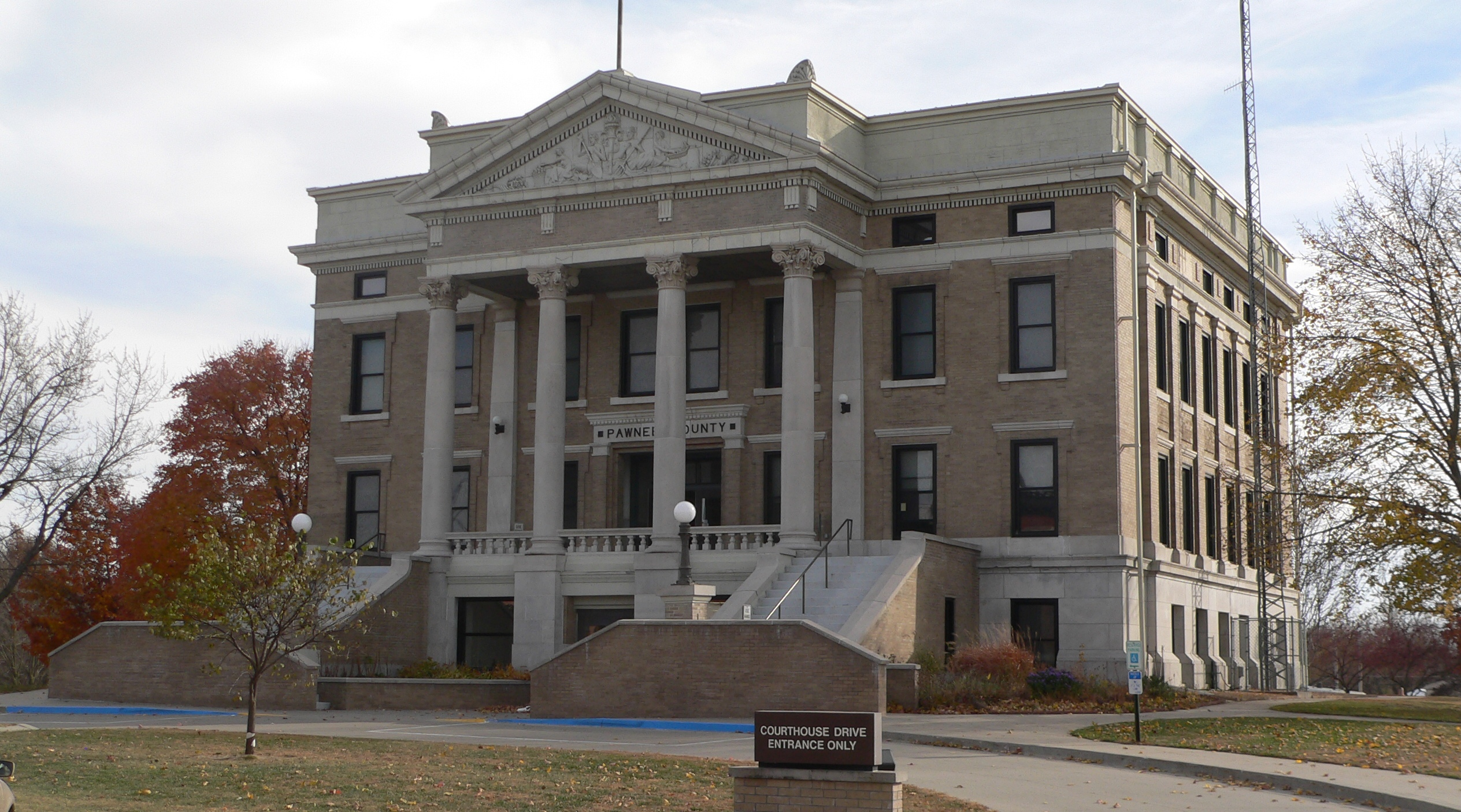 Pawnee County Courthouse in Pawnee City, Nebraska; seen from the northwest.